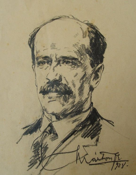 Depicted person: Bethlen István (1874-1946)